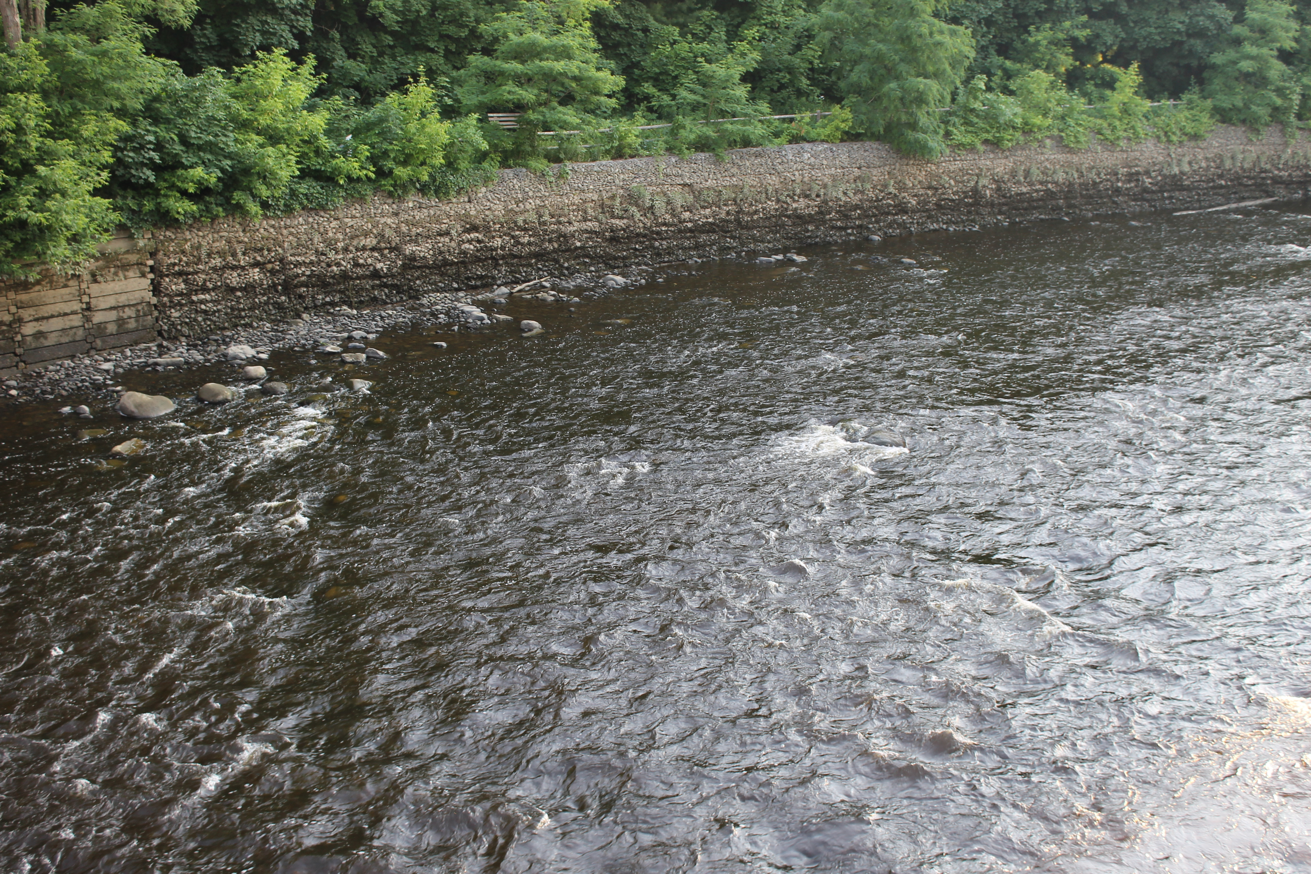 I took photo with Canon camera of Kenduskeag Stream in Bangor, ME.